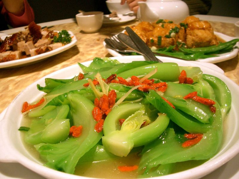 Mustard Greens poached in Superior Stock with Goji Berries - Hongkong Seafood Hut, off Glenferrie Road, Hawthorn. Tender hearts of mustard green poached in superior stock, with some ??? goji berries / wolfberries for sweetness and colour. In the background is a roast duck and roast pork with crisp skins! Probably re-toasted in a griller. And a beancurd stuff with fish paste ?????.